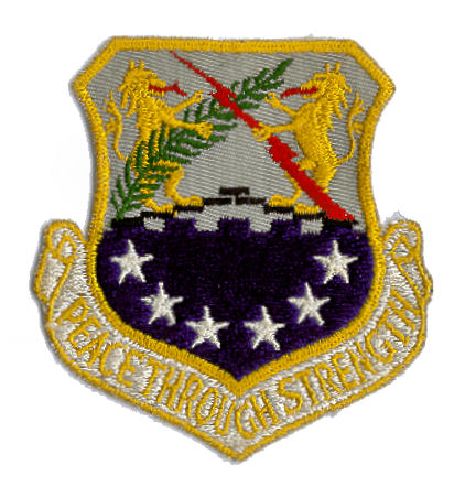 Emblem of the 100th Bombardment Wing